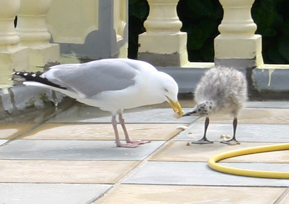 Herring Gull feeding one of its chicks - about 4 weeks old!